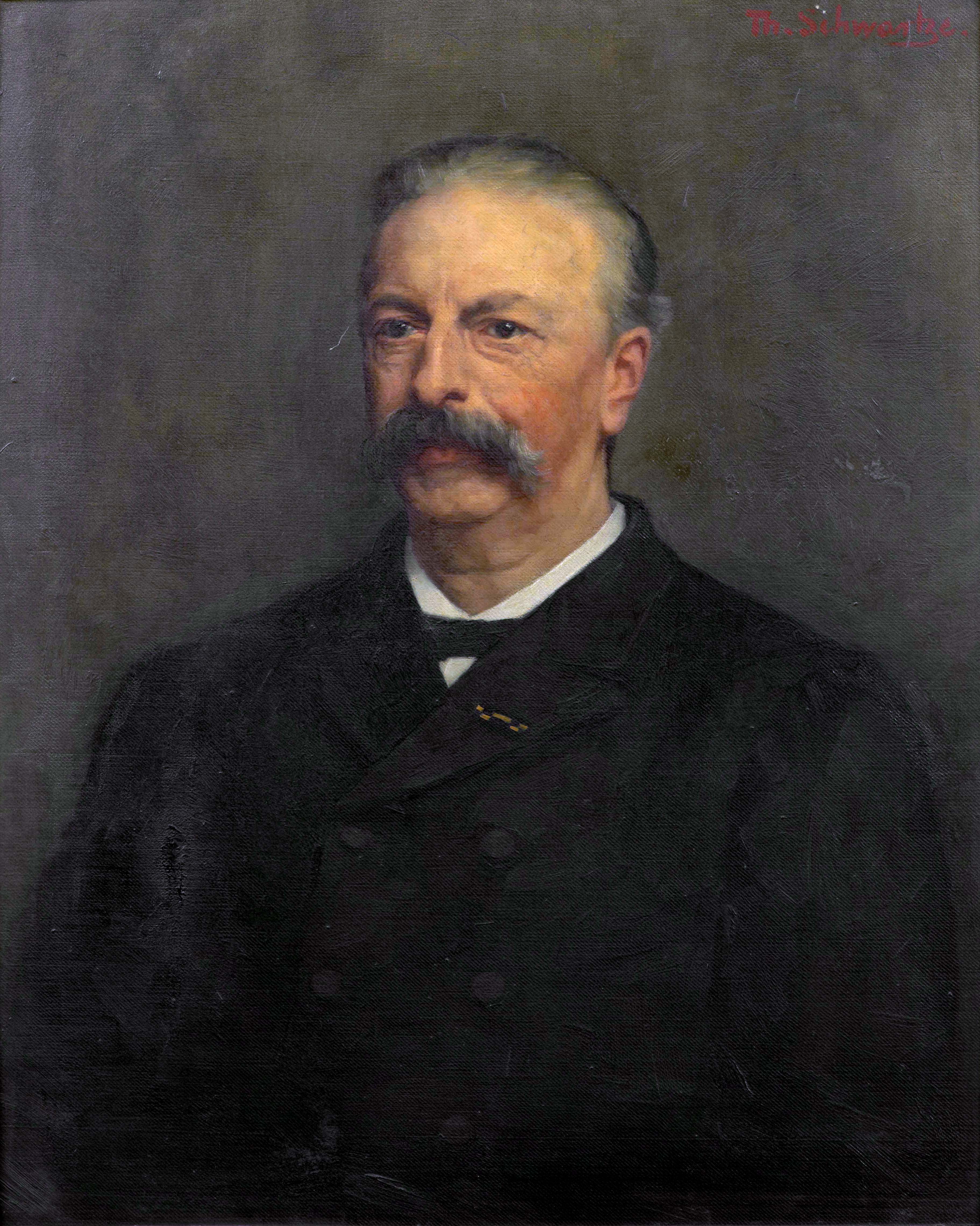 Louis Marie de Laat de Kanter oil on canvas 73,5 × 59 cm signed t.r.: Th. Schwartze